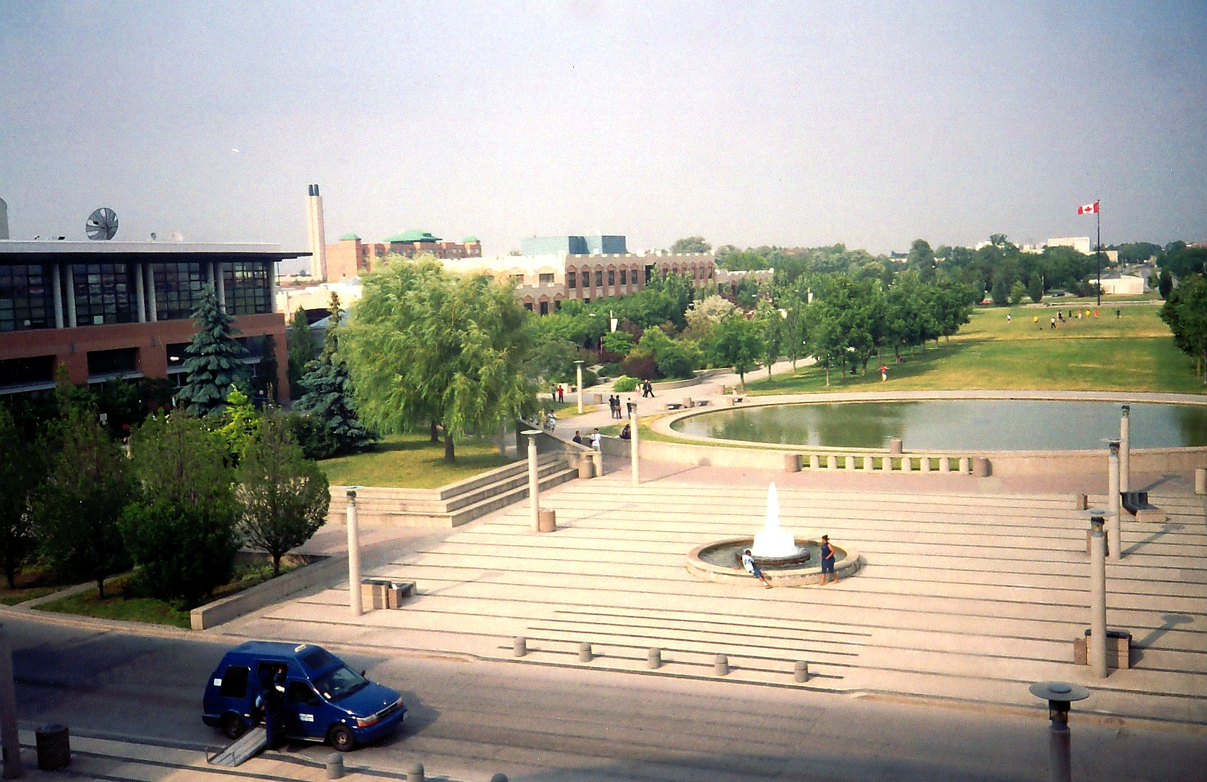 View from the windows of Vari Hall in the central York University Campus (Amateur Photograph)